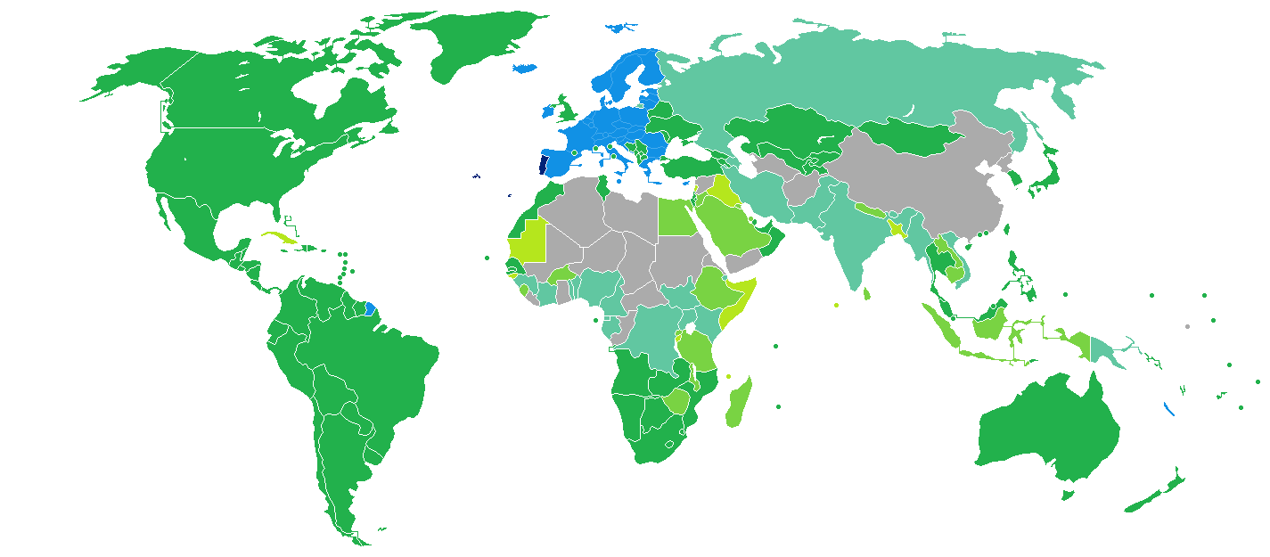 Visa requirements for Portuguese citizens Portugal Freedom of movement Visa not required Visa on arrival eVisa Visa available both on arrival or online Visa required prior to arrival